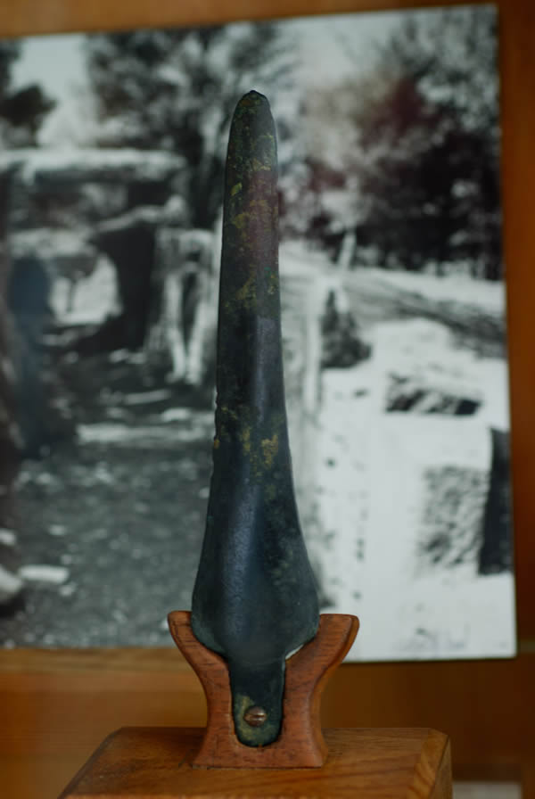 Unusual copper tool found in Dolmen de Fades (Olonzac Museum)